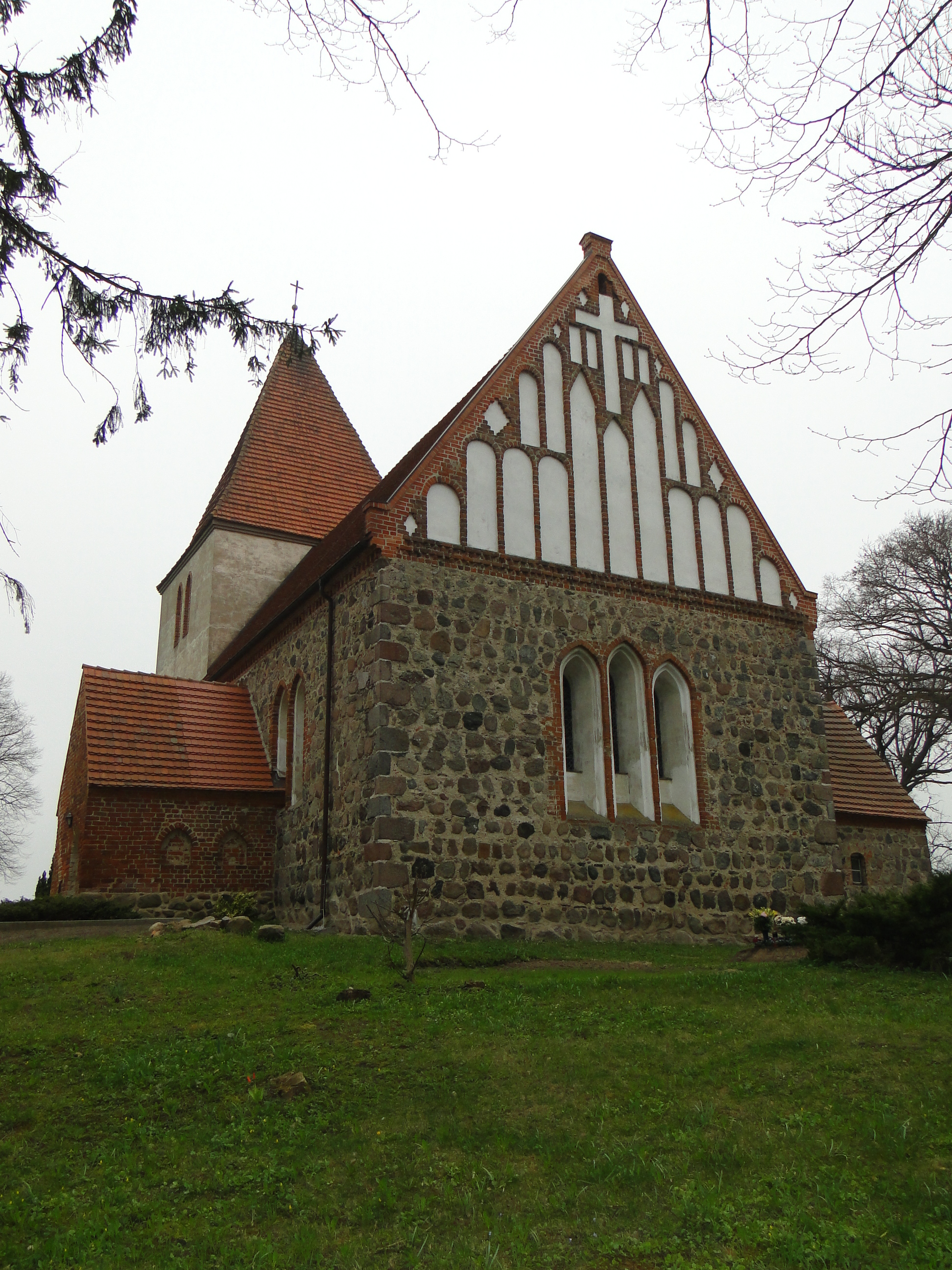 Church in Zehna, district Rostock, Mecklenburg-Vorpommern, Germany